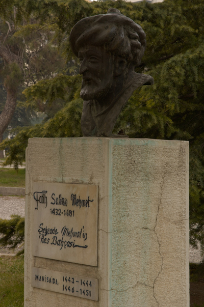 Bust of the Ottoman sultan en: Mehmed II in Manisa, Turkey, who administered the city in two periods in the 1440s.